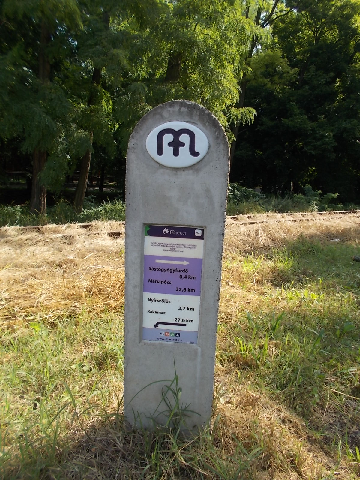 Maria Way sign along the Nyírvidék Railway, No. 119 railway line, close to Sóstógyógyfürdő (former) railway station - Sóstógyógyfürdő neighborhood, Nyíregyháza, Szabolcs-Szatmár-Bereg County, Hungary.